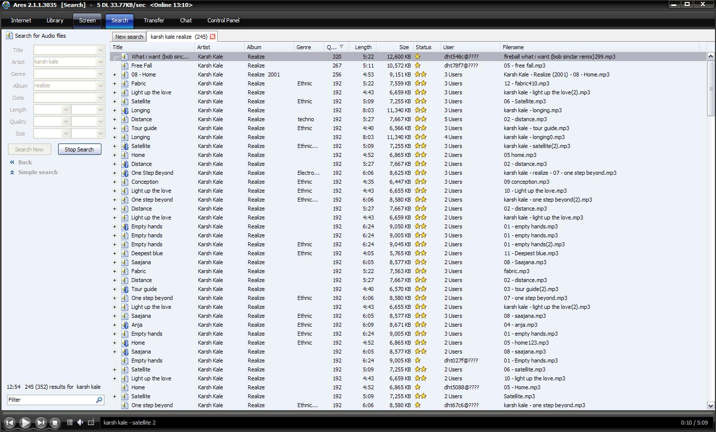 Screenshot of Ares Galaxy